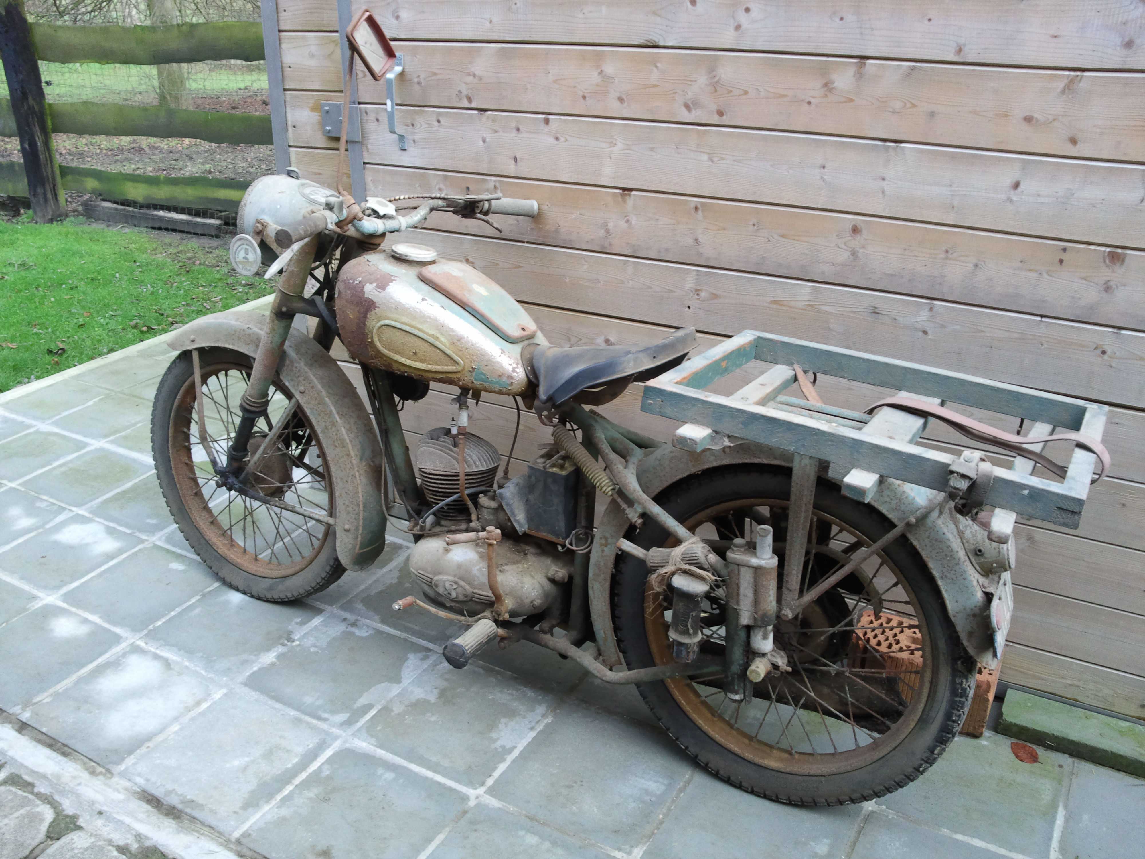 150cc ratly bike